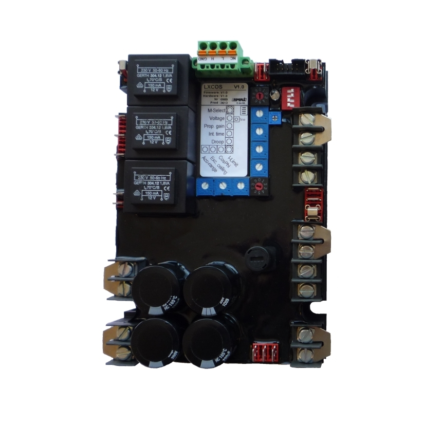 Universal Digital Automatic Voltage Regulator of EMRI Electronics